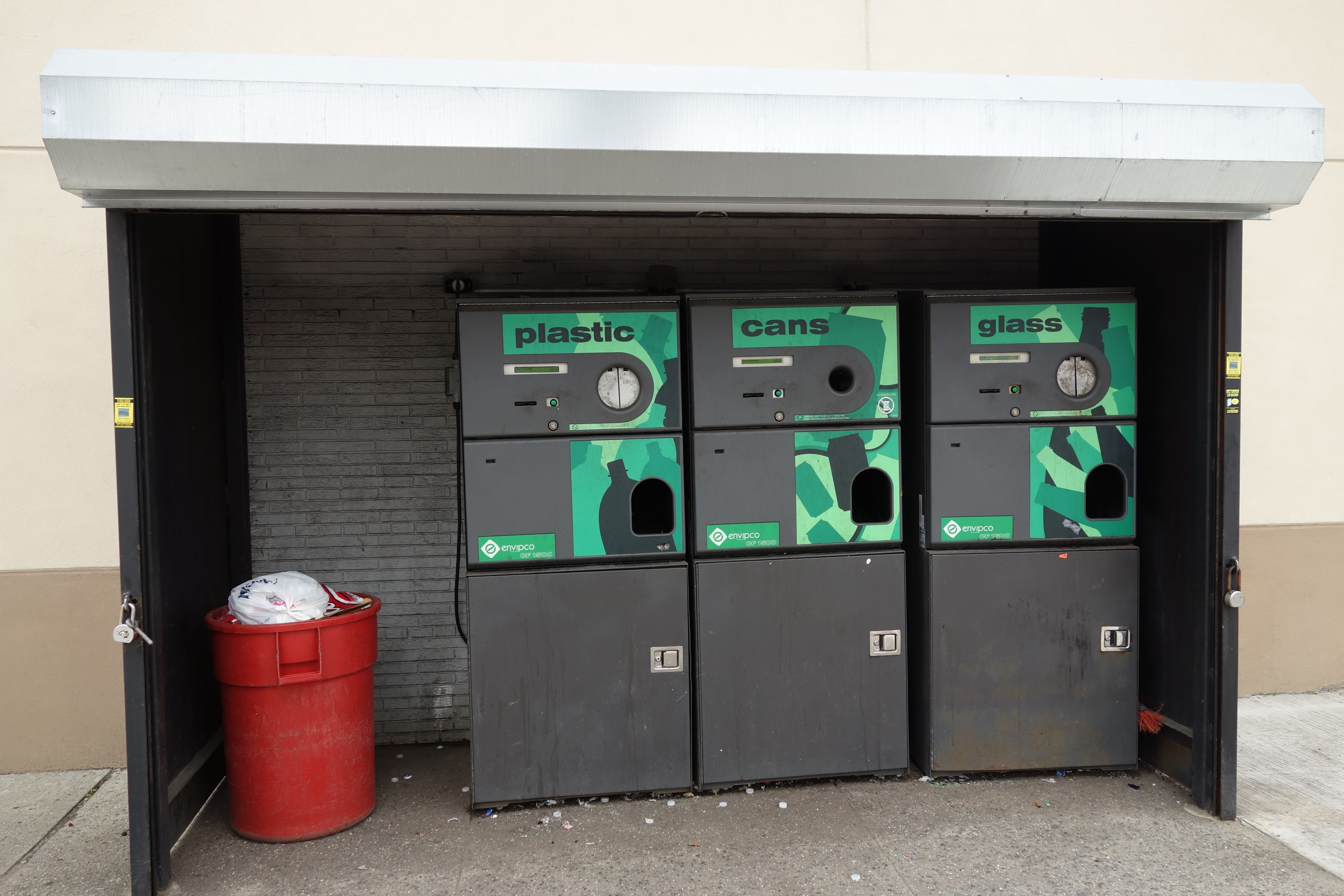 Three bottle recycling machines at a C-Town supermarket, at Cross Bay Boulevard and 109th Avenue north of Sutter Avenue in Ozone Park, Queens.